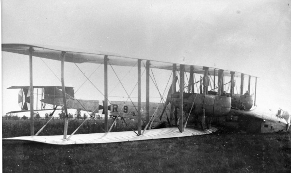 PictionID:43639409 - Catalog:16_004671 - Title: Zeppelin-Staaken V.G.O.II (VGO - Versuchs Gotha-Ost) 9/15 - Filename:16_004671.TIF - - - - - - - Image from the Ray Wagner Collection. Ray Wagner was Archivist at the San Diego Air and Space Museum for several years and is an author of several books on aviation --- ---Please Tag these images so that the information can be permanently stored with the digital file.---Repository: San Diego Air and Space Museum